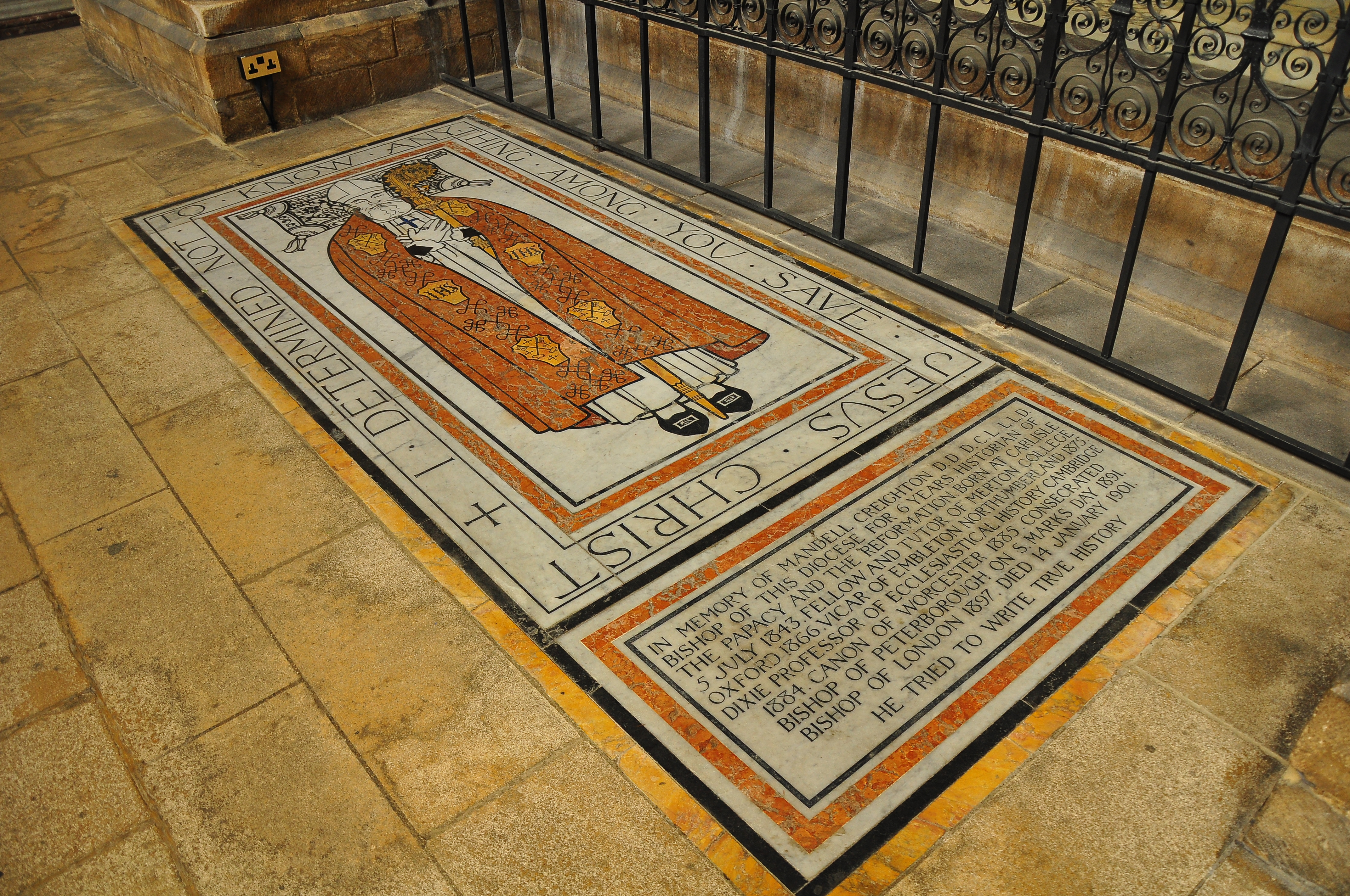 Memorial to Mandell Creighton, Peterborough Cathedral: this is a replica of the memorial stone designed by Henry Harris Brown (1864–1949).[1][2] The original lies over Creighton's grave in St Paul's.